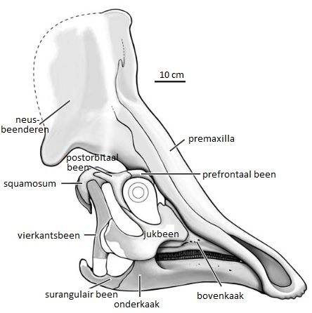 Skull reconstruction of Olorotitan arharensis Godefroit, Bolotsky & Alifanov, 2003 (holotype AEHM 2-845), with indication of the main bones . Upper Cretaceous of Kundur, Russia